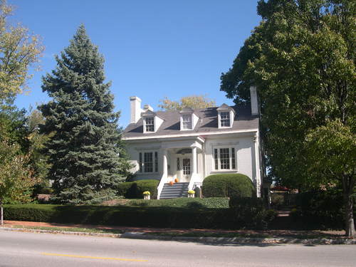 The Lyman Trumbull house, Alton, Illinois. From about 1849 to 1863, this 1-1/2 story brick house was the residence of Lyman Trumbull, an arch-opponent of the Radical Republicans. Trumbull sponsored much Reconstruction legislation, including the Confiscation Acts, Freedmen's Bureau Bill of 1866, and the Civil Rights Act of 1866.